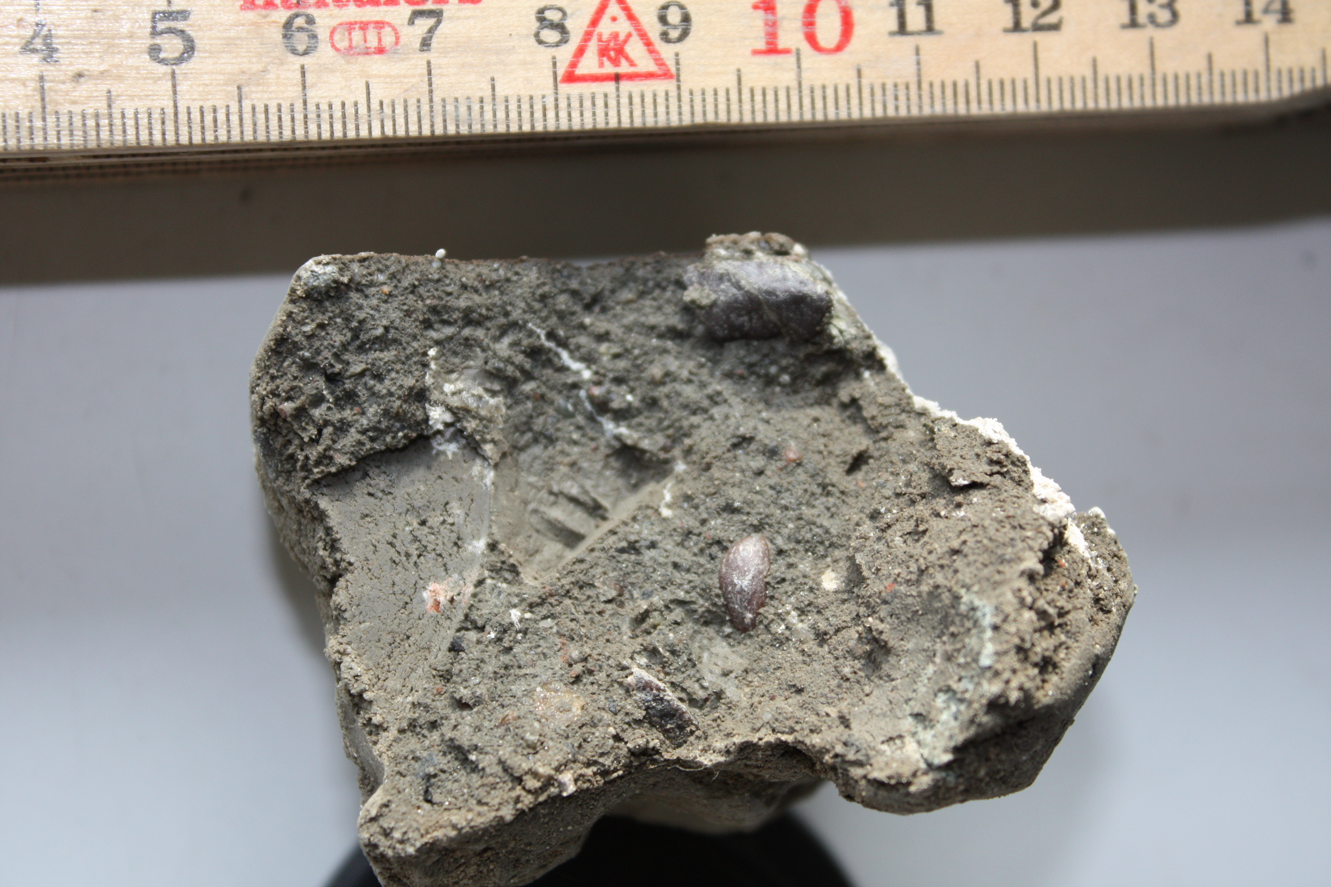 Grey unweathered clay till with gravels and limestone bits